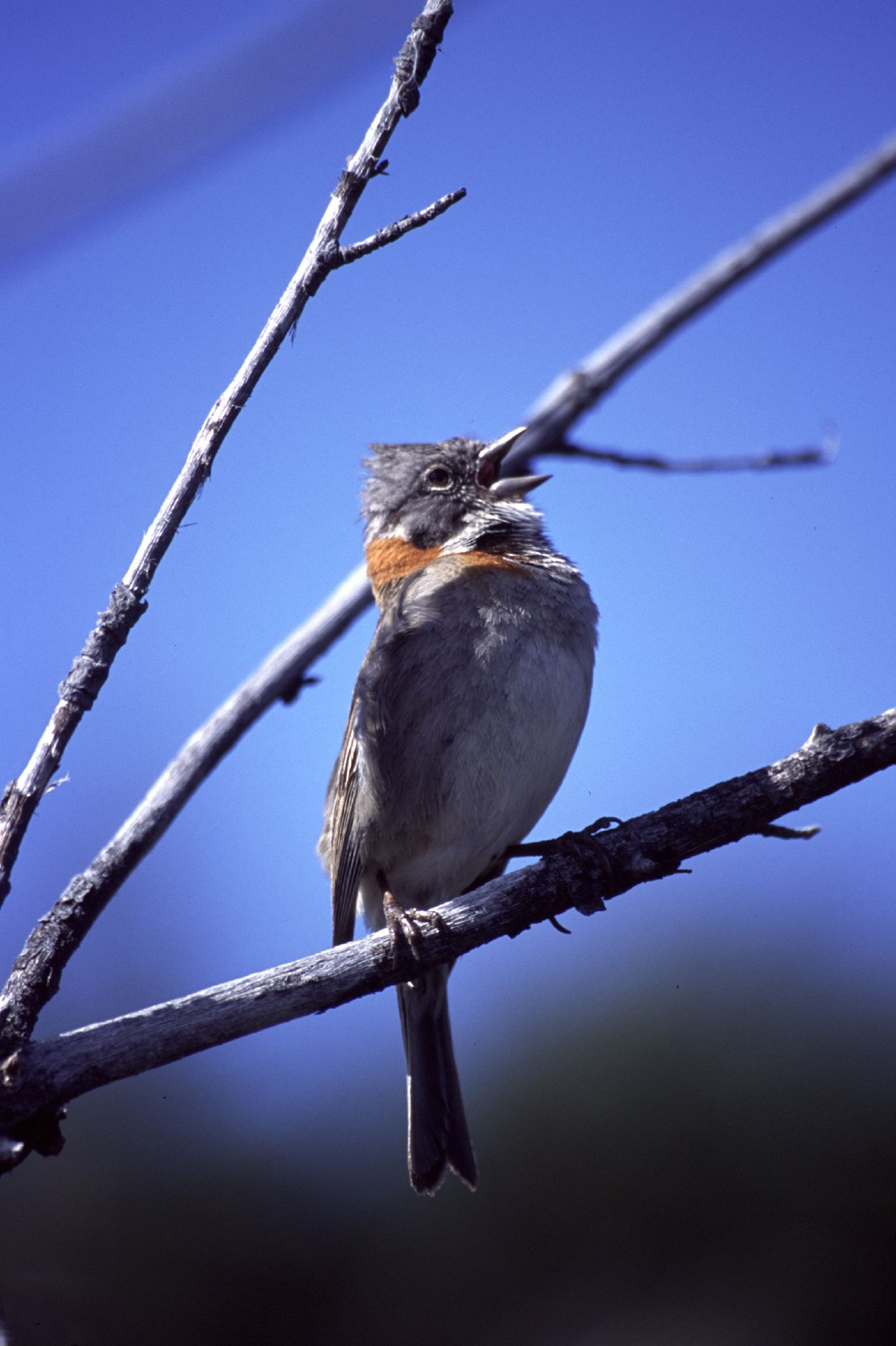 A Rufous-collared Sparrow at Los Glaciares National Park, Patagonia, Argentina.